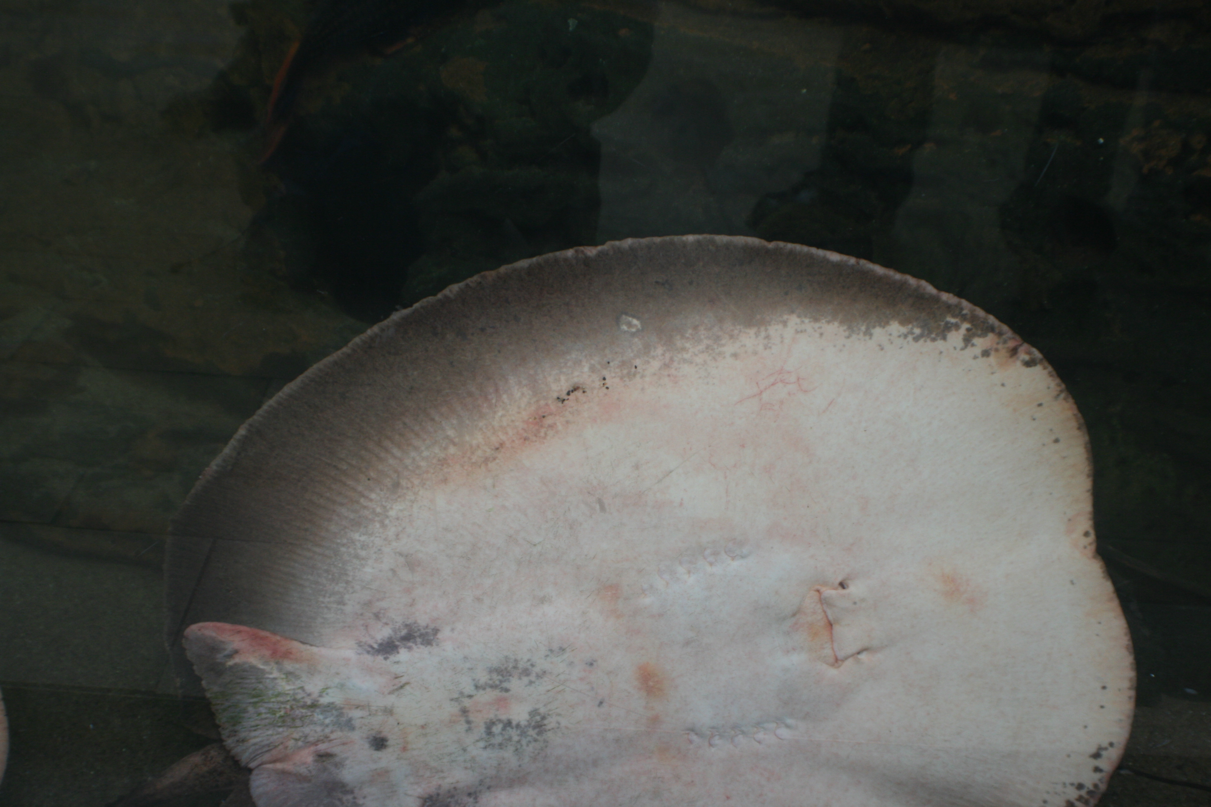 Discus ray (Paratrygon aiereba) at the Shedd Aquarium